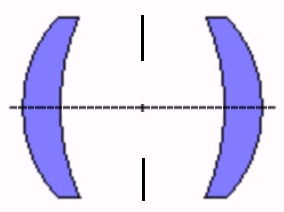 The Periskop is an early symmetrical camera objective developed by Steinheil. The Periskop is used with a central f-stop.